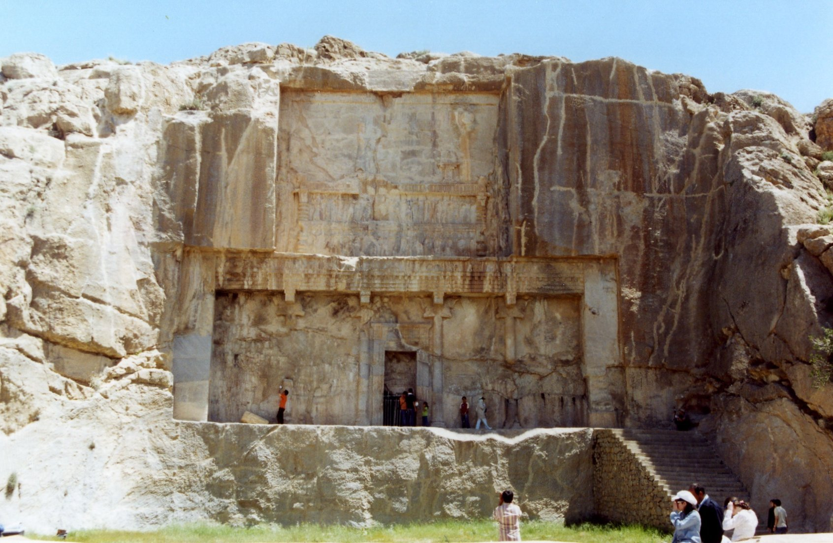 Tomb of Artaxerxes II, Persepolis, Iran. Picture Taken by myself Persepolis Iran April 2006